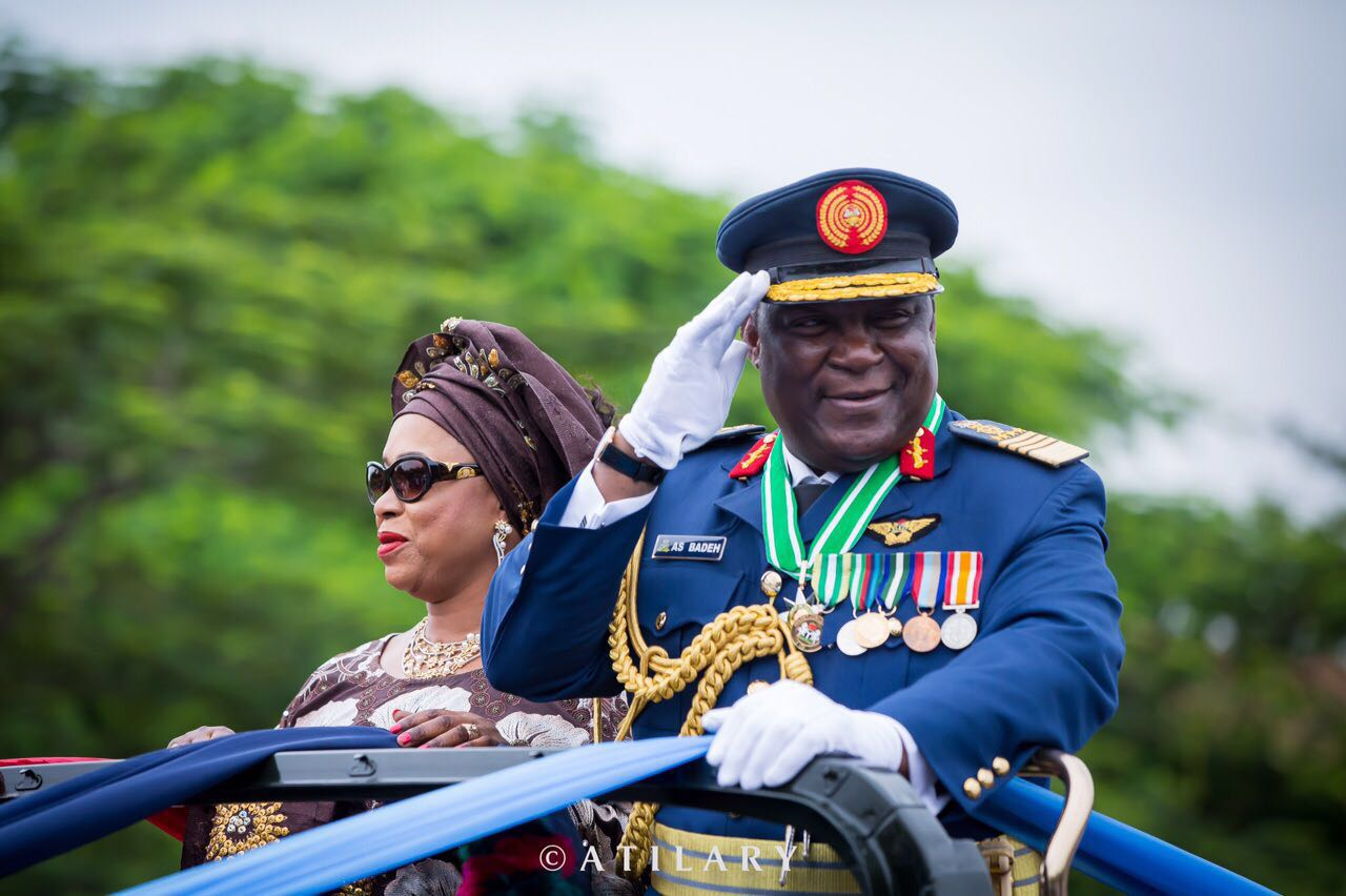 Alex Sabundu Badeh's Promotion